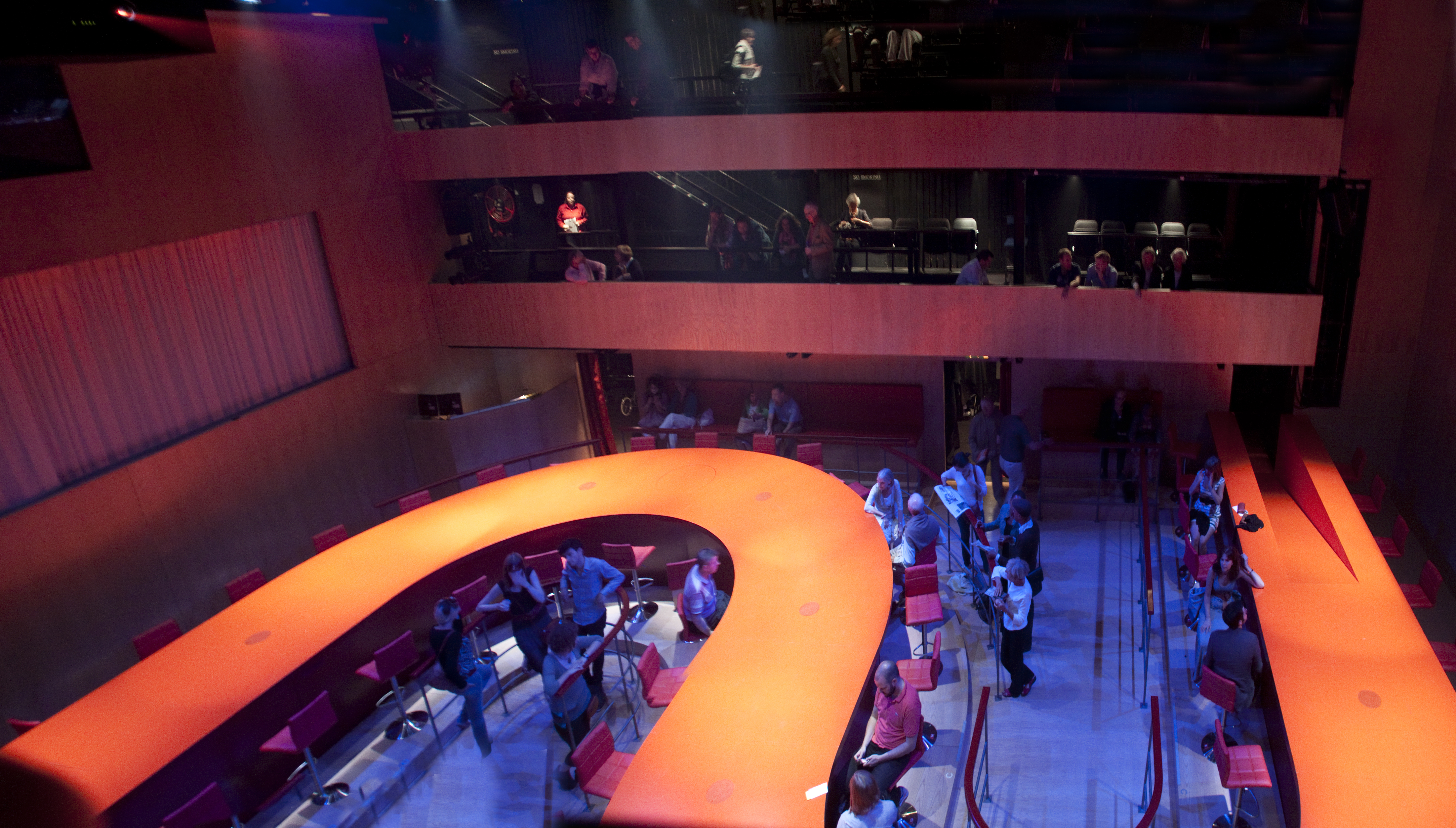 Waiting for the start of Earthquakes in London at the Cottesloe, National Theatre, London